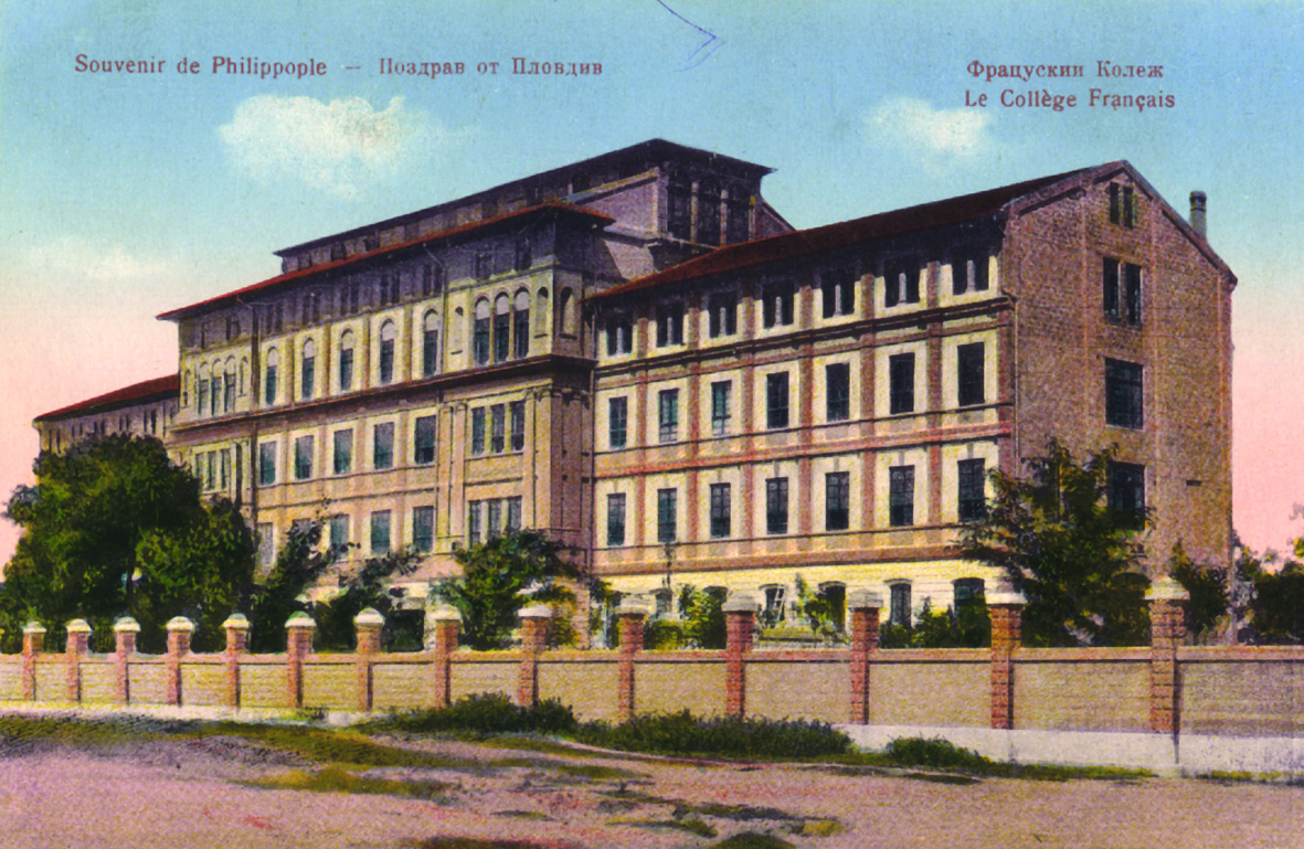 French College St. Augustine in Plovdiv